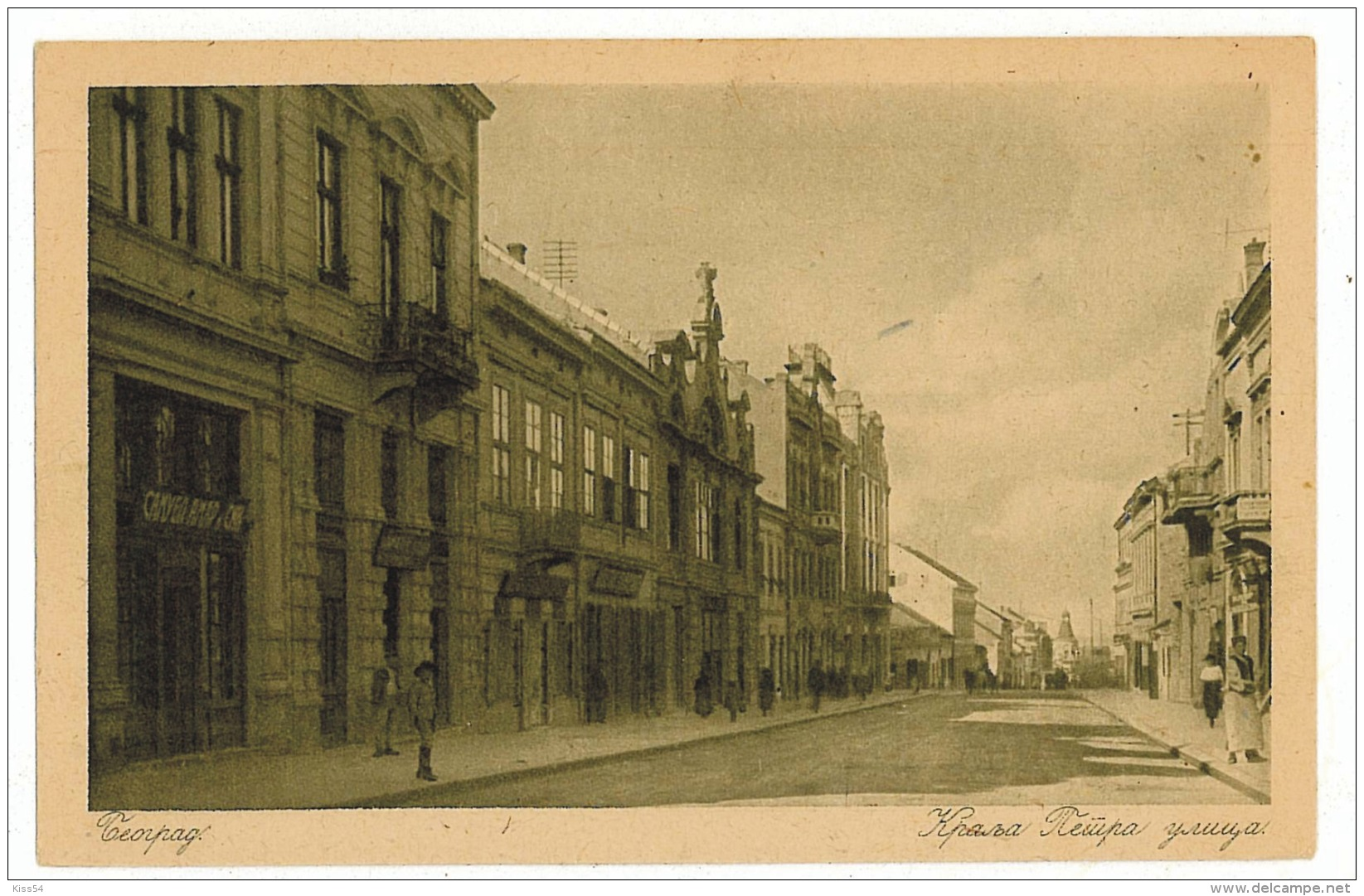 King Peter's street, Belgrade